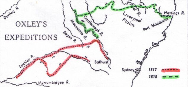 Map of the explorer's route in Australia. This image is of Australian origin and is now in the public domain because its term of copyright has expired. According to the Australian Copyright Council (ACC), ACC Information Sheet G023v16 (Duration of copyright) (Feb 2012). Type of materialCopyright has expired if ... A Photographs or other works published anonymously, under a pseudonym or the creator is unknown:taken or published prior to 1 January 1955 B Photographs (except A):taken prior to 1 January 1955 C Artistic works (except A & B):the creator died before 1 January 1955 D Published editions1 (except A & B):first published more than 25 years ago E Commonwealth or State government owned2 photographs and engravings:taken or published more than 50 years ago and prior to 1 May 1969 1 means the typographical arrangement and layout of a published work. eg. newsprint. 2owned means where a government is the copyright owner as well as would have owned copyright but reached some other agreement with the creator. When using this template, please provide information of where the image was first published and who created it.